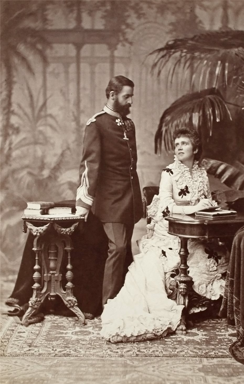 King Carol I of Romania with his wife Queen Elisabeth, 1870s